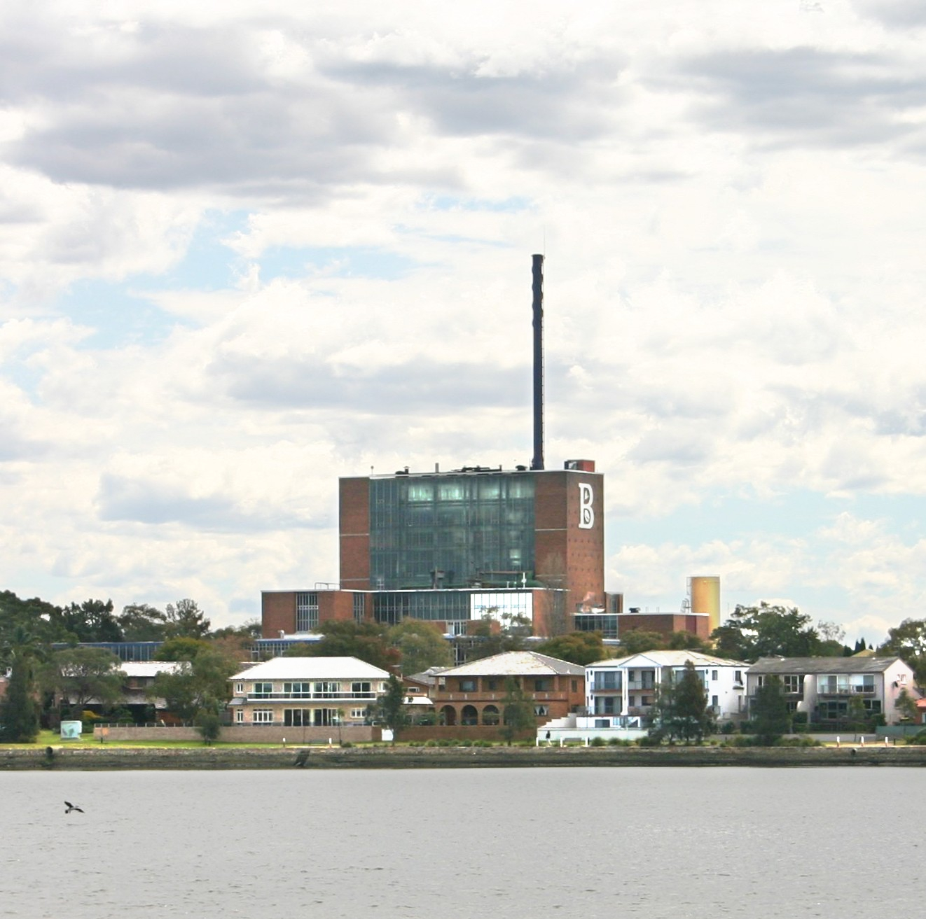 Photo by Alex Wolfson.